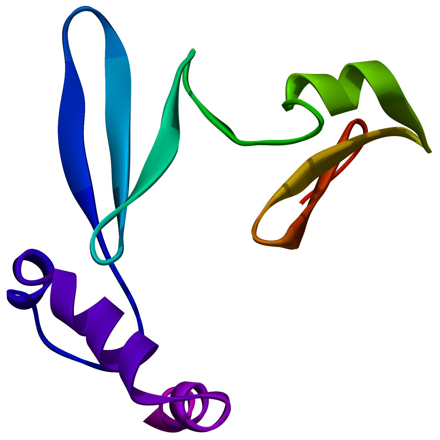 Theoretical model of ghrelin's structure. Based on PDB entry 1P7X